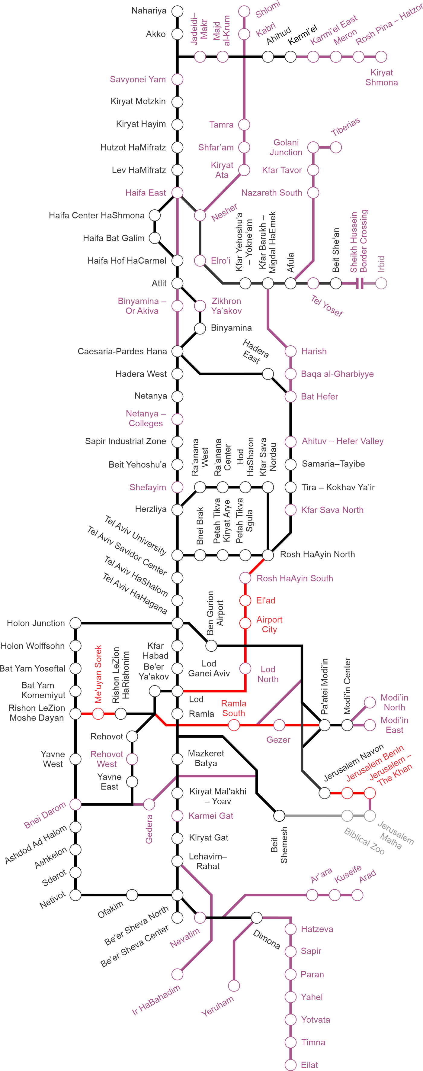 Israel Railways map for the follow-up expansion plan. In black are existing lines and stations, in red are lines and stations under construction or advanced planning. In purple are approved lines and stations (the gray part being an extension to Jordan). References: Eastern Line Modi'in Arc Railway to Arad Railway to Kiryat Shmona Additional stations on Karmiel line Sorek station Strategic plans by MoT on GovMap IL Savyonei Yam, Kabri, Shlomi stations Jerusalem Khan station